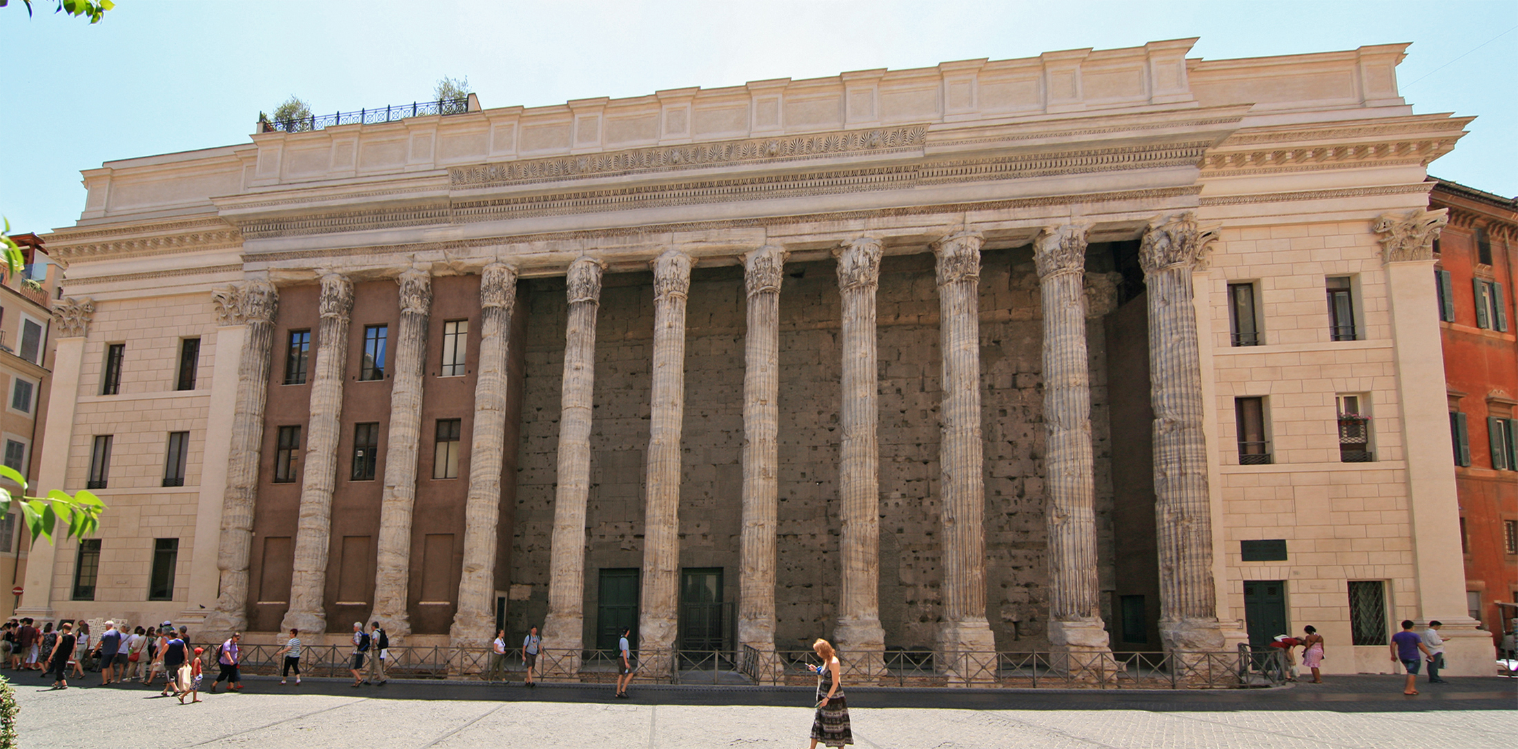 Temple of Hadrian, Rome.